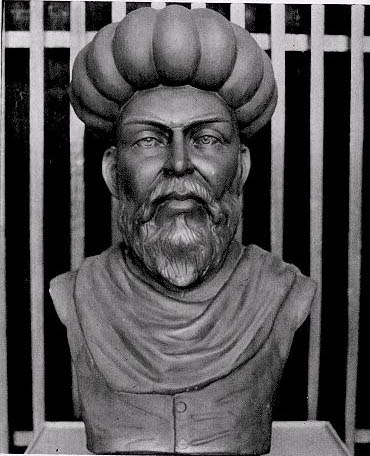 Photograph of statue of Ibn Al Nafis